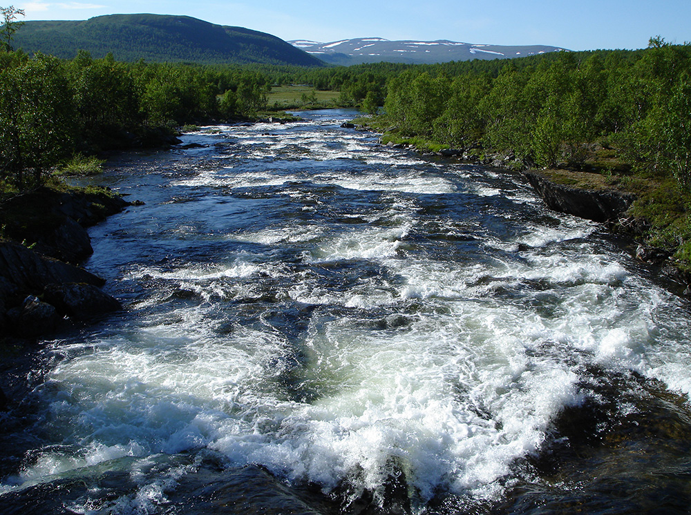 River Vapstälven or Vefsna below the outlet of Lake Virisen.